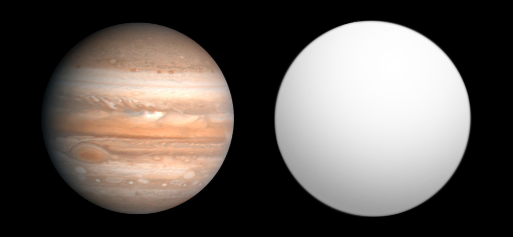 Comparison of best-fit size of the exoplanet HD 17156 b with the Solar System planet Jupiter, as reported in the Open Exoplanet Catalogue[1] as of 2010-09-30. ↑ Open Exoplanet Catalogue (2010-09-30). Retrieved on 2010-09-30.